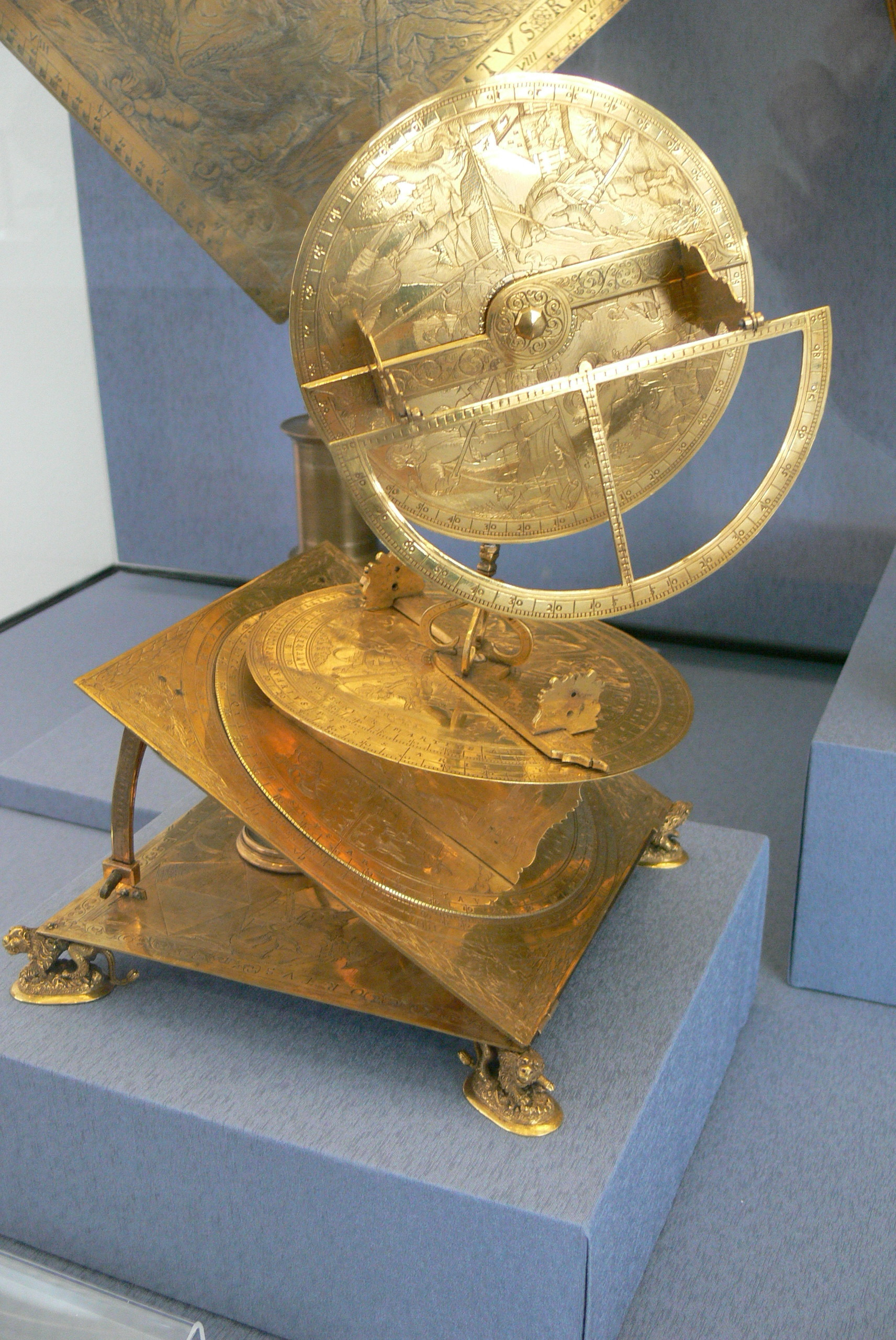 German National Museum (Nuremberg/Germany). Torquetum (1568), made by Johannes Praetorius in Nuremberg.